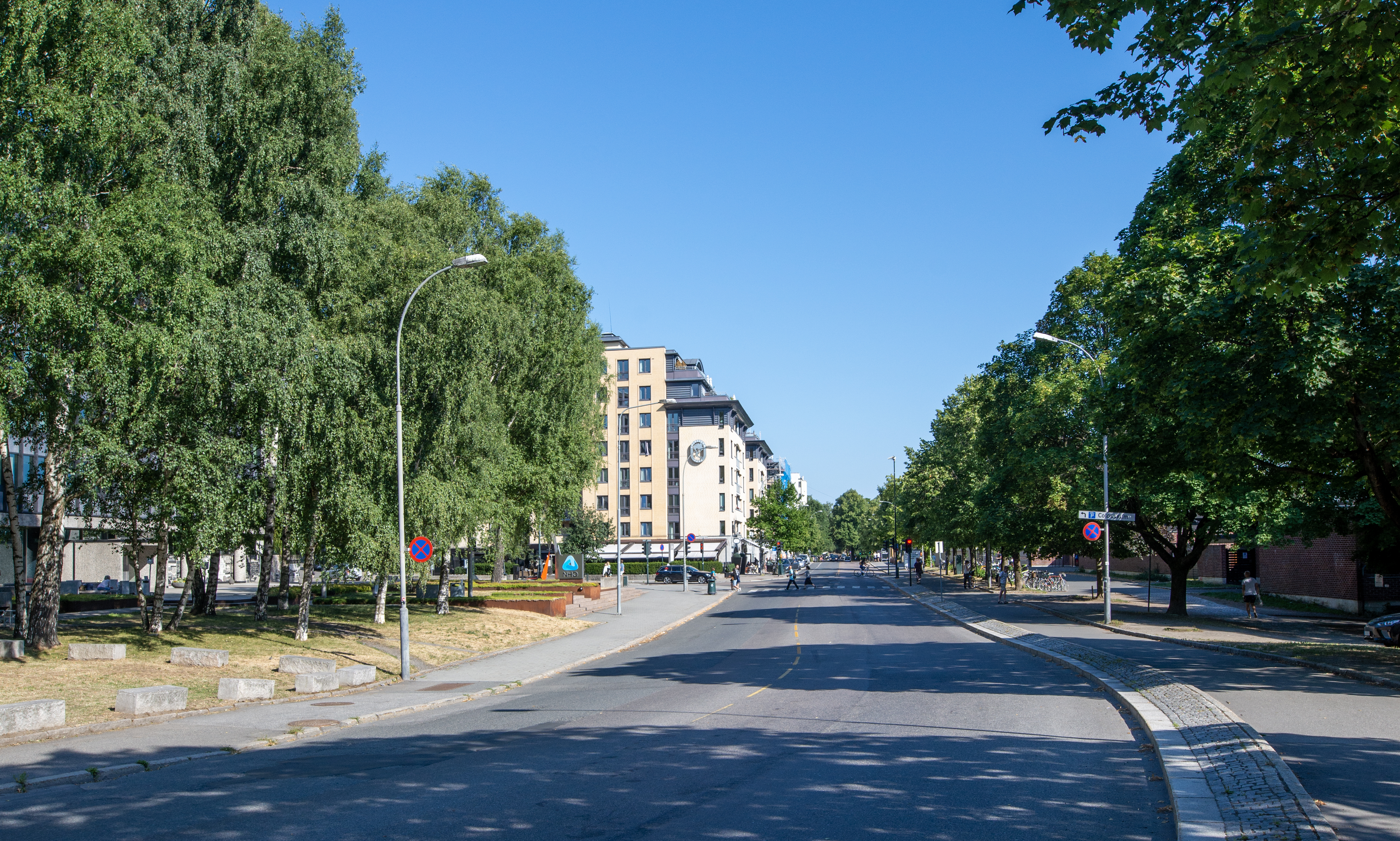 Middelthuns gate, Majorstuen, Oslo, Norway from about #27 Аҧсшәа: Middelthuns gate på Majorstuen i Oslo fra omtrent nr 27